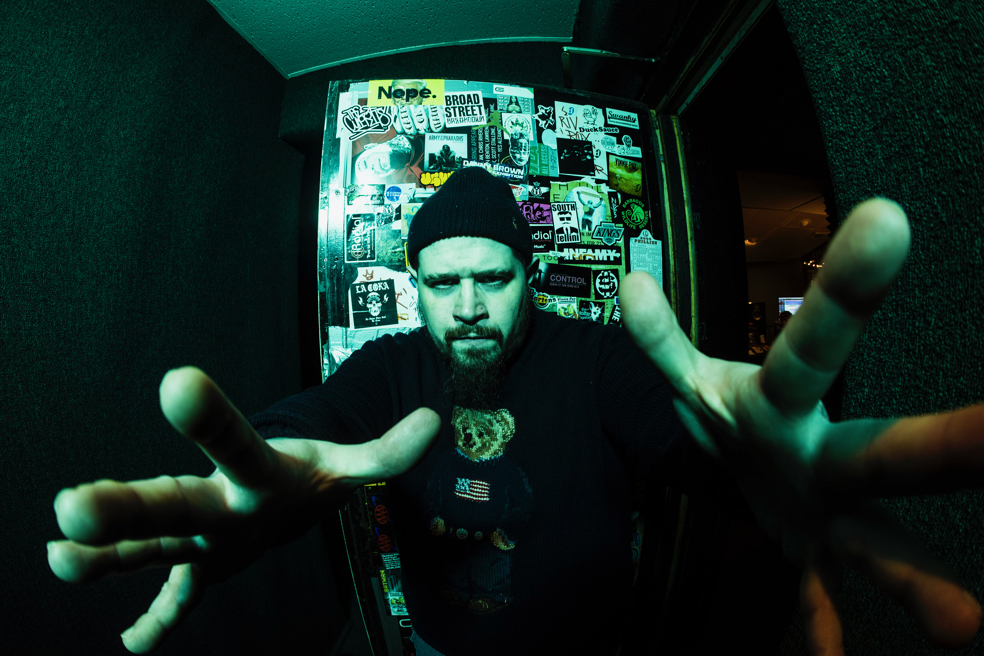 Vinnie Paz in Philadelphia